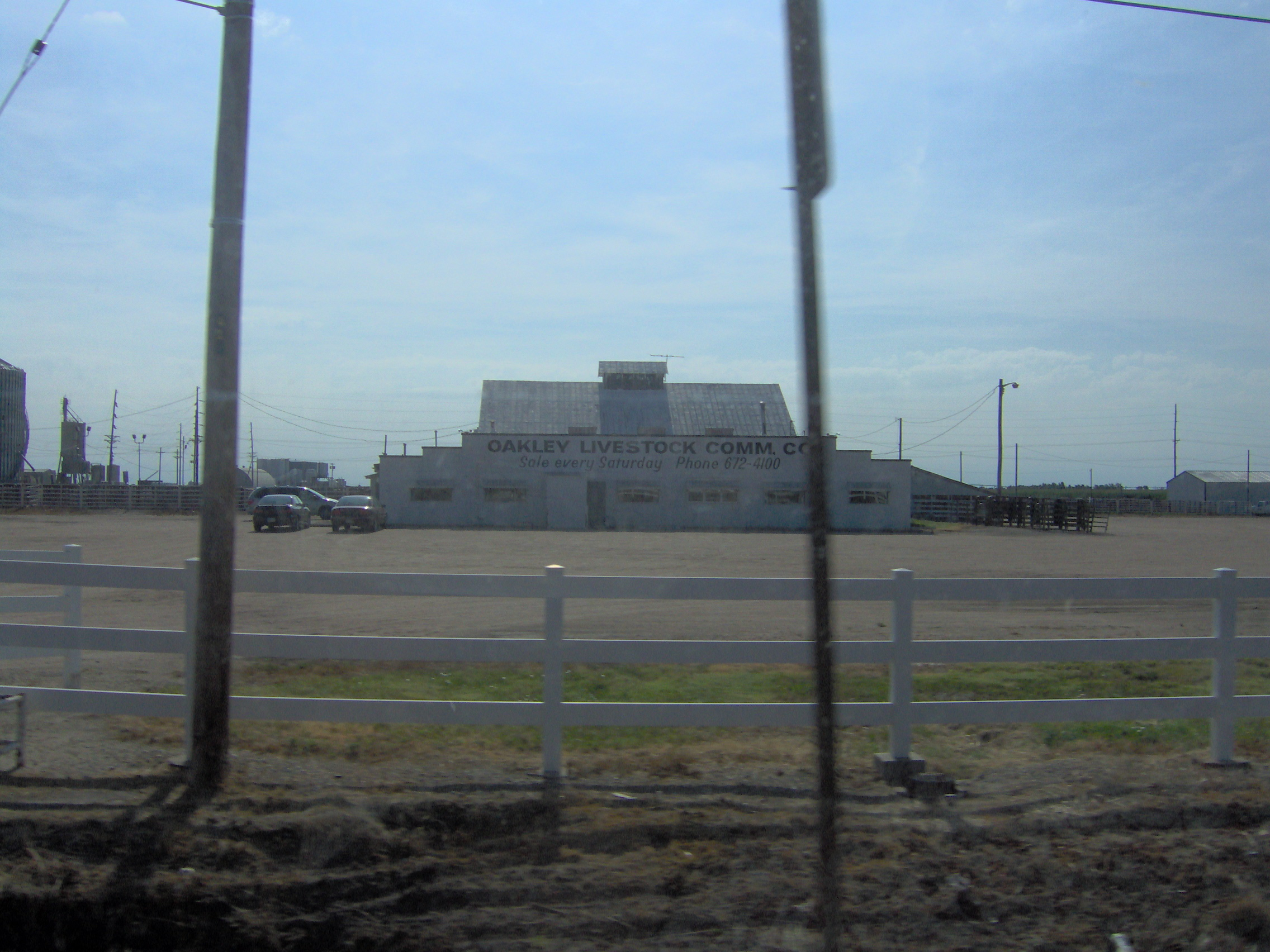 Picture of a stockyard on the southern edge of Oakley, Kansas, United States, looking eastward from U.S. Route 83. Agriculture is a significant part of the economy near Oakley.